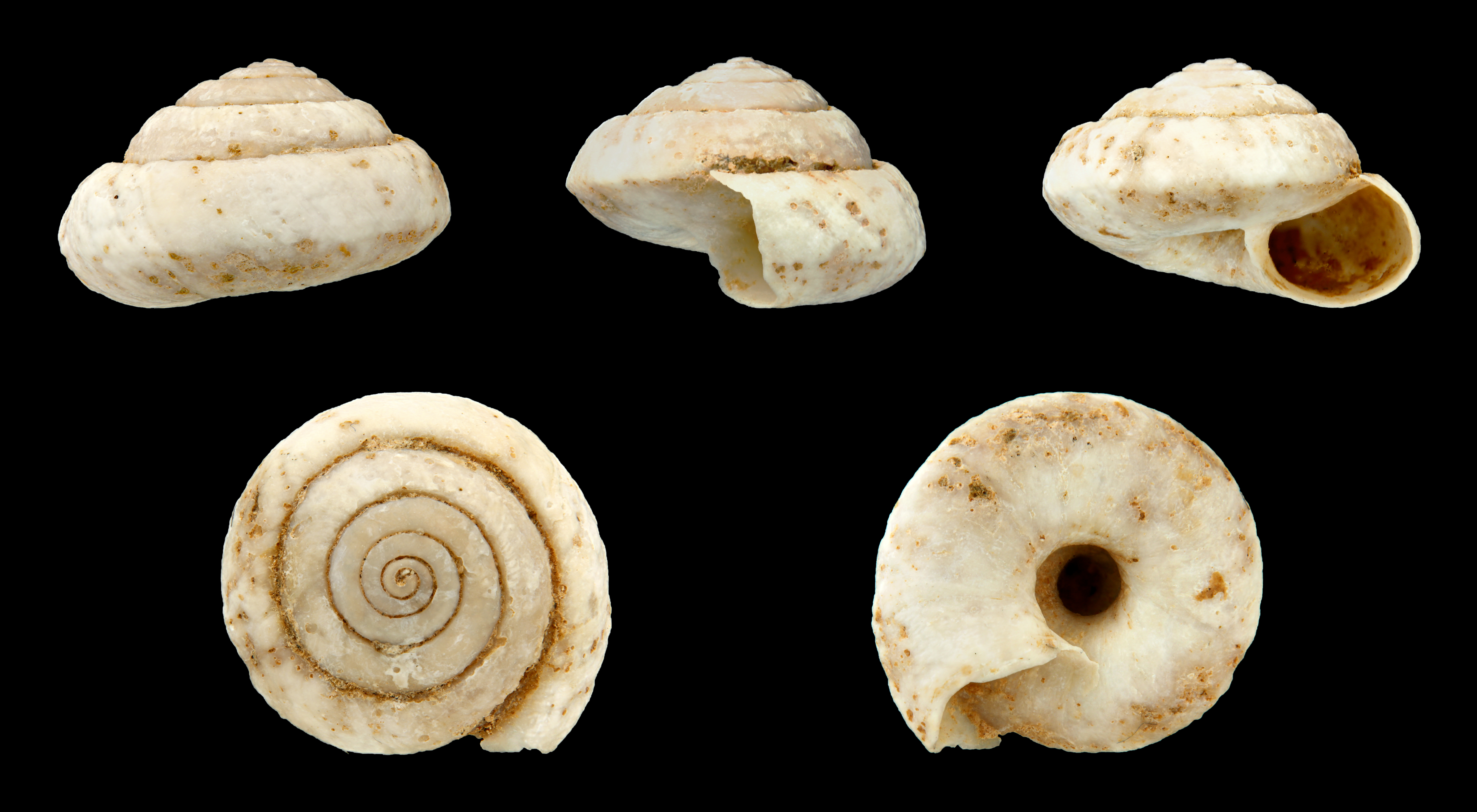 Fossil shell; diameter 1.2 cm; Quarternary sands; Costa Calma, Fuerteventura, Canary Islands, Spain 28°09′56.87″N 14°12′57.64″W / 28.1657972°N 14.2160111°W; Shell of own collection, therefore not geocoded.